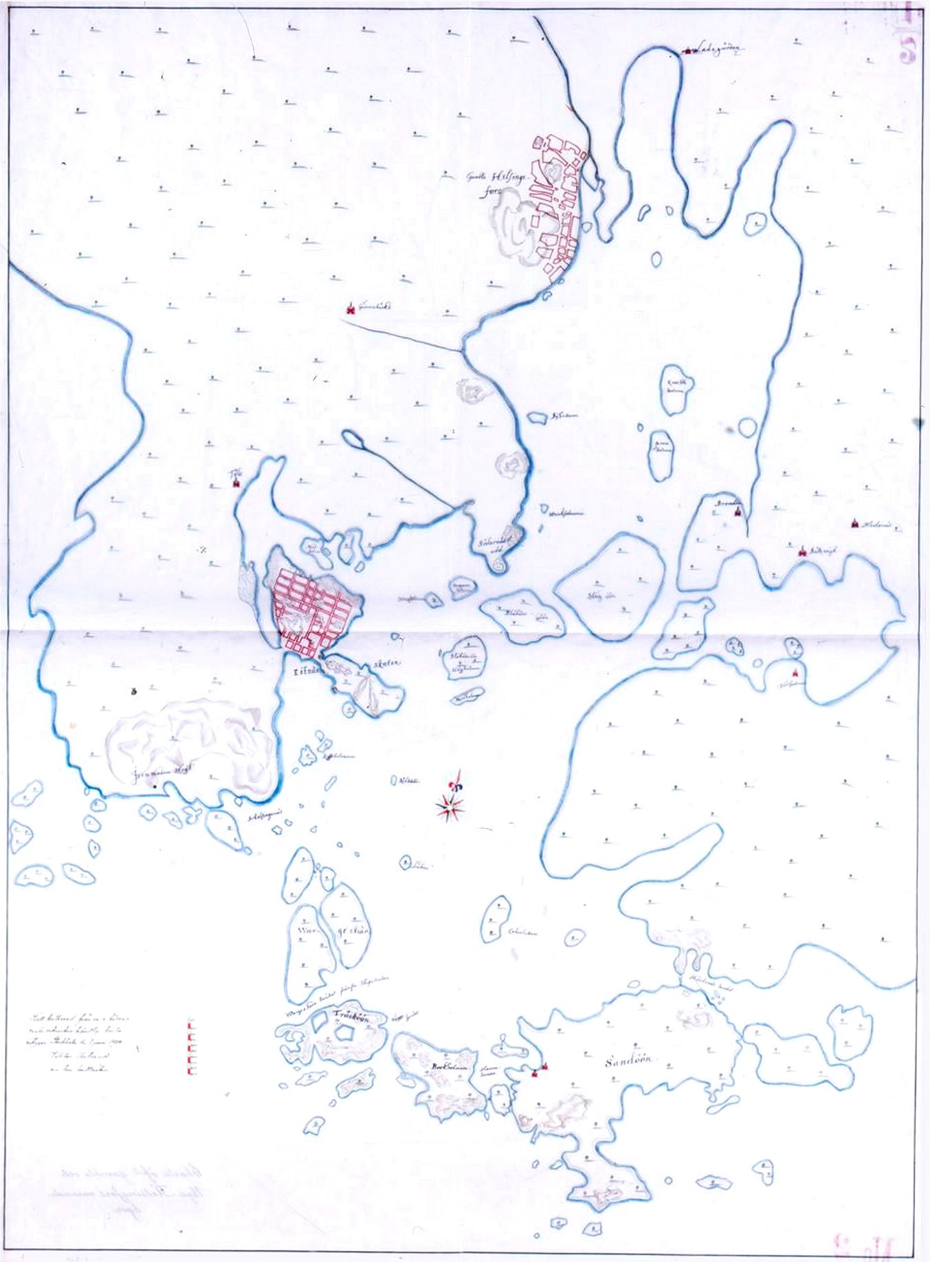 A very early map of Helsinki, Finland from 1645. The map shows both old Helsinki at the mouth of the Vantaa River as well as new Helsinki.